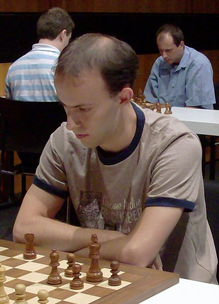 Adam Horvath, Hungarian chess grandmaster